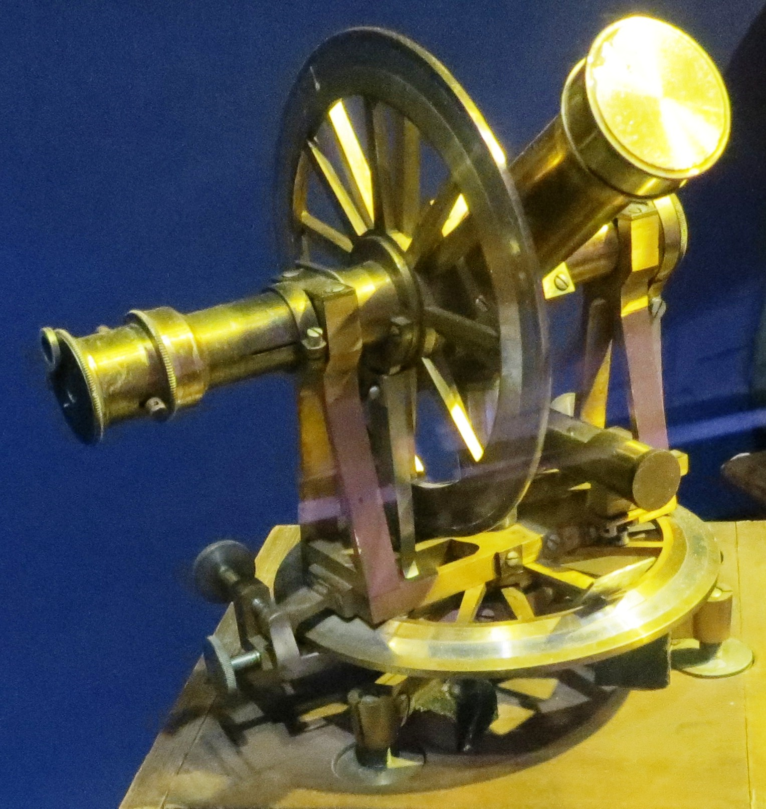 Artifacts from the Fram museum in Oslo, Norway. This is the azimuth used by Fridtjof Nansen and Hjalmar Johansen during their 1895-96 expedition towards the North Pole, which ended at Franz Josef Land.